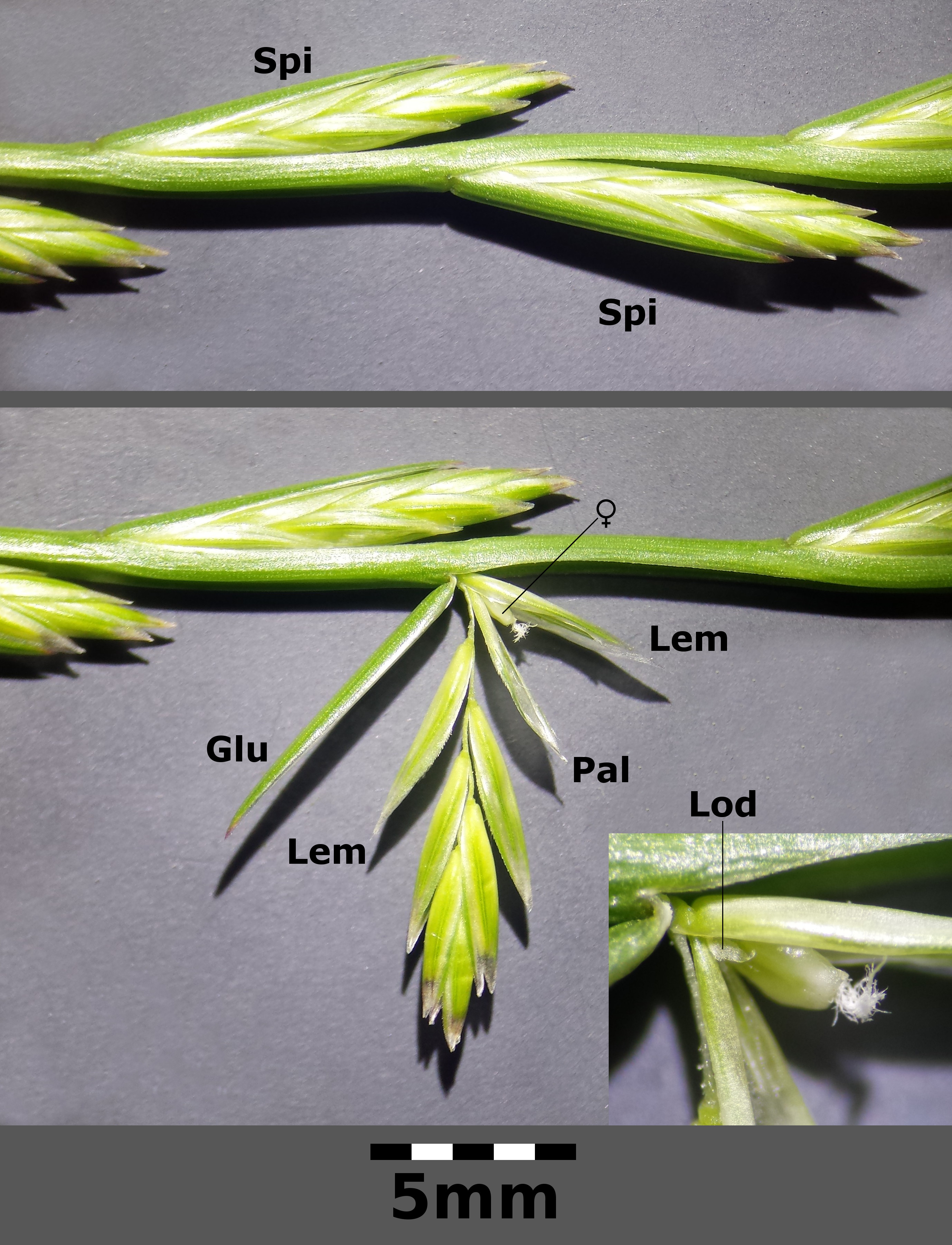 Spi = Spicula, Glu = Gluma, Lem = Lemma, Pal = Palea, Lod = Lodiculae Taxonym: Lolium perenne ss Fischer et al. EfÖLS 2008 ISBN 978-3-85474-187-9 Location: Neue Donau, Vienna-Floridsdorf - ca. 160 m a.s.l. Habitat: wayside